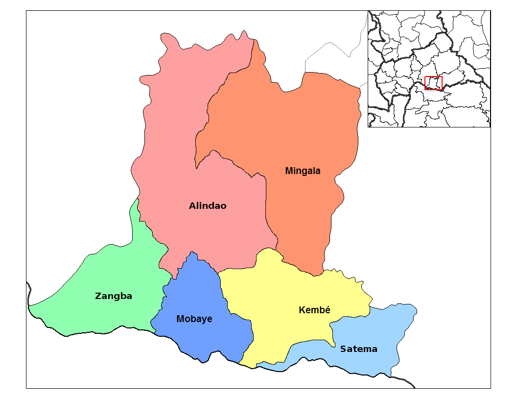 Map of the sub-prefectures of Basse-Kotto prefecture in the Central African Republic. Created by Rarelibra 19:27, 31 August 2006 (UTC) for public domain use, using MapInfo Professional v8.5 and various mapping resources.